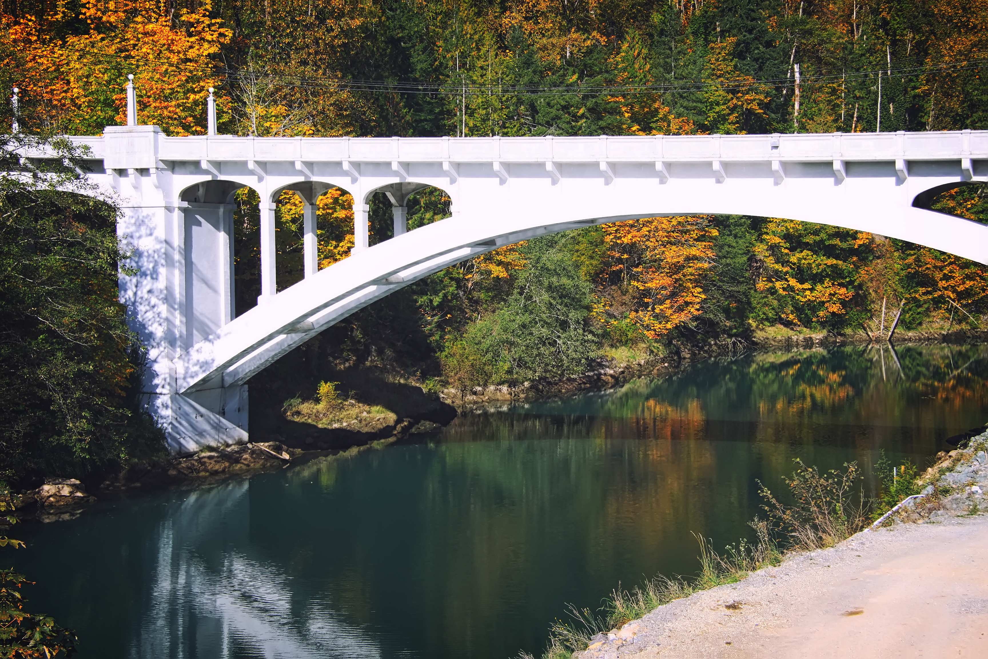 Henry Thompson Bridge (a.k.a Baker River Bridge) across Baker River in Concrete, WA. Built 1916-1918 it is now on the historic register ( Photo by Steven Pavlov, 2009.